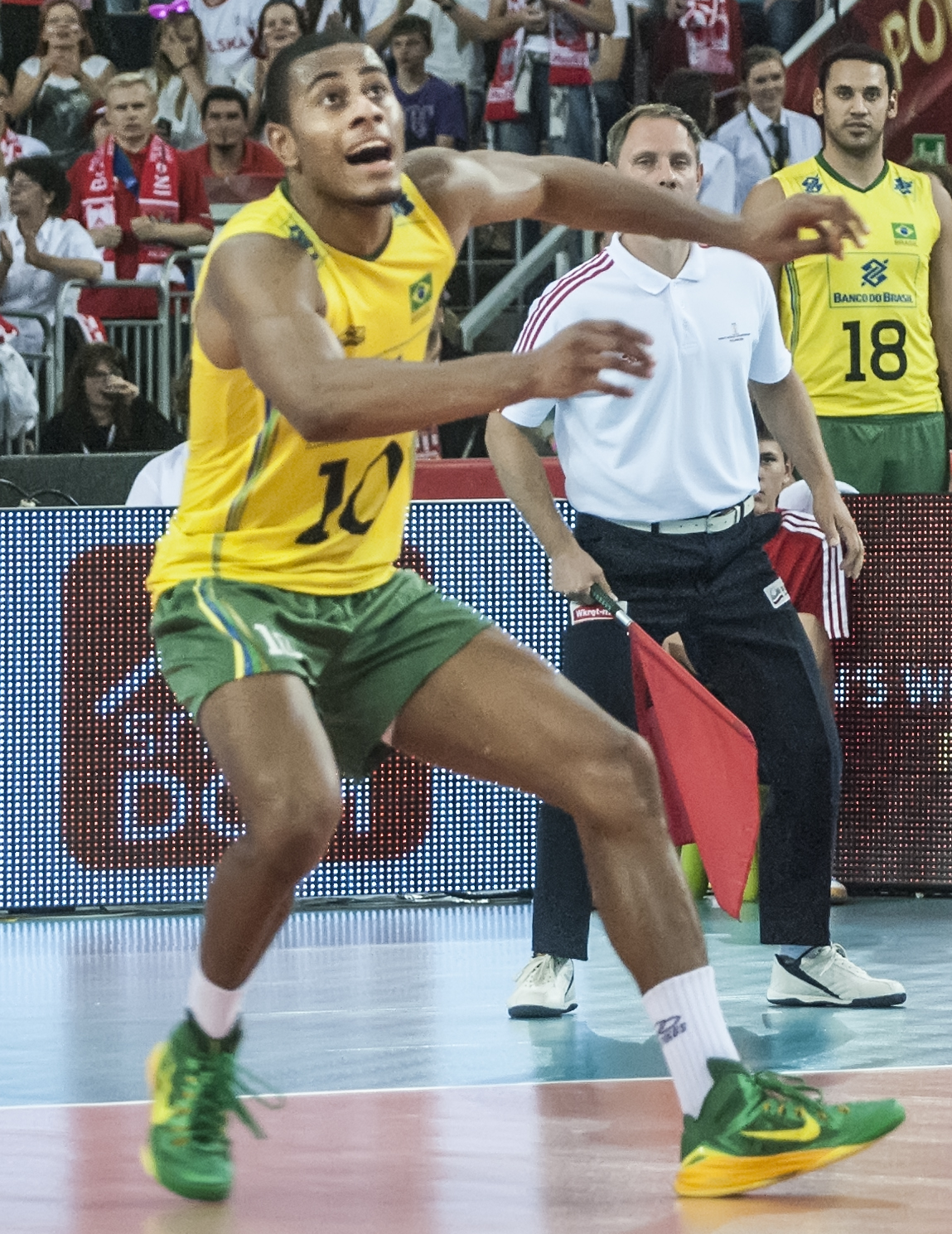 Ricardo Souza playing for Brazil in 2014 FIVB Volleyball World Championship in Poland.